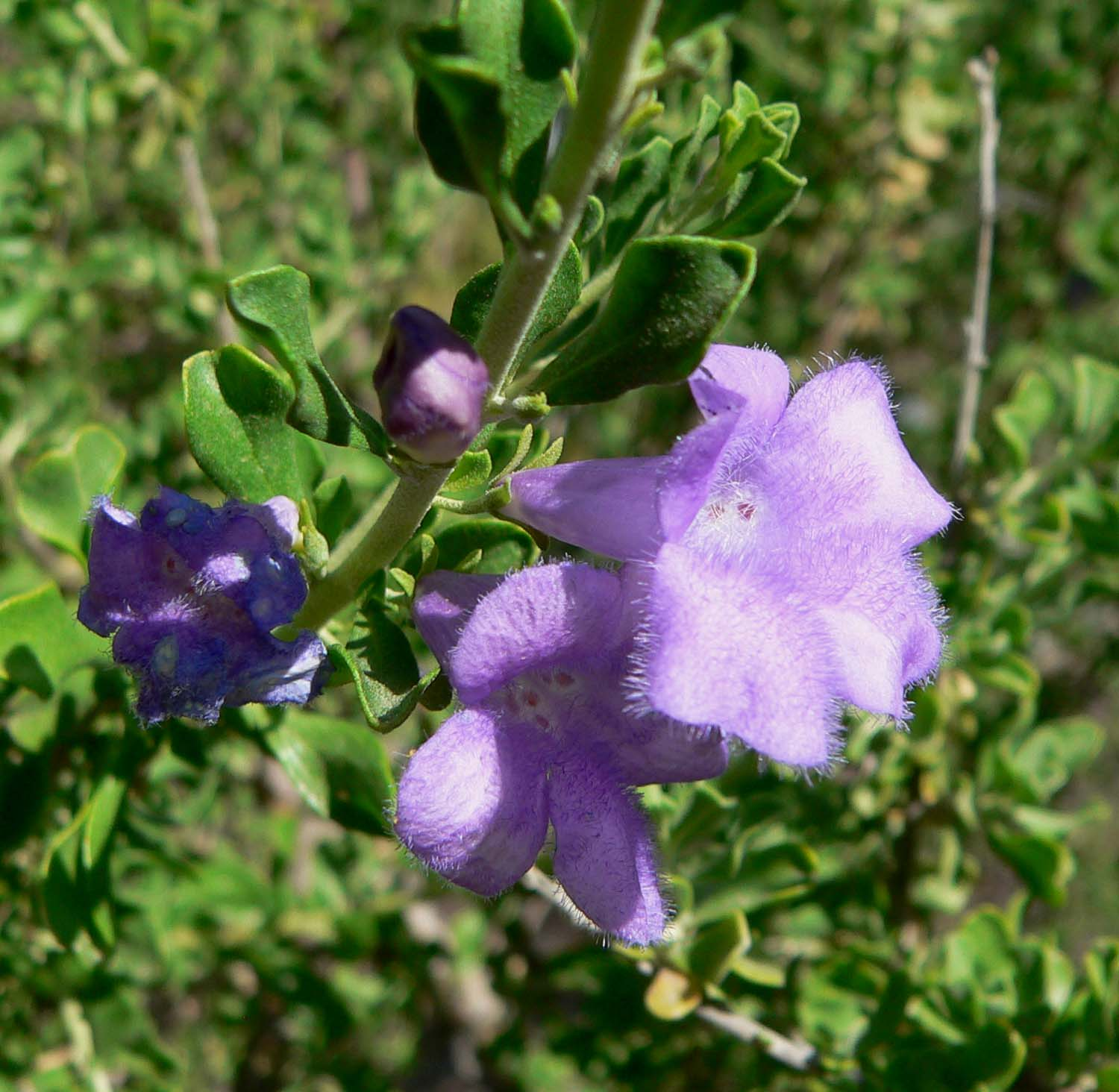 Photo of Leucophyllum laevigatum (Chihuahuan sage) at the Springs Preserve garden in Las Vegas, Nevada